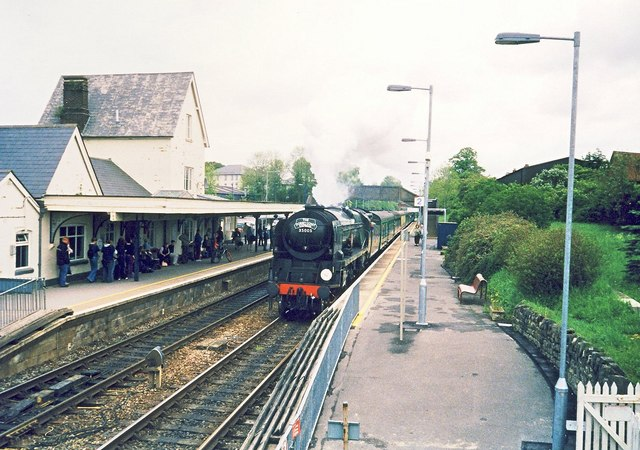 The Dorset Coast Express